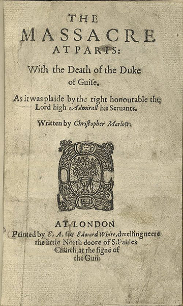 This is the title page to the play The Massacre at Paris by Christopher Marlowe, printed around 1593 to 1605 in London, England.